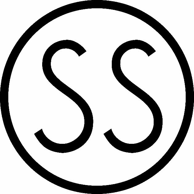 Storstockholms Spårvägar logotype.